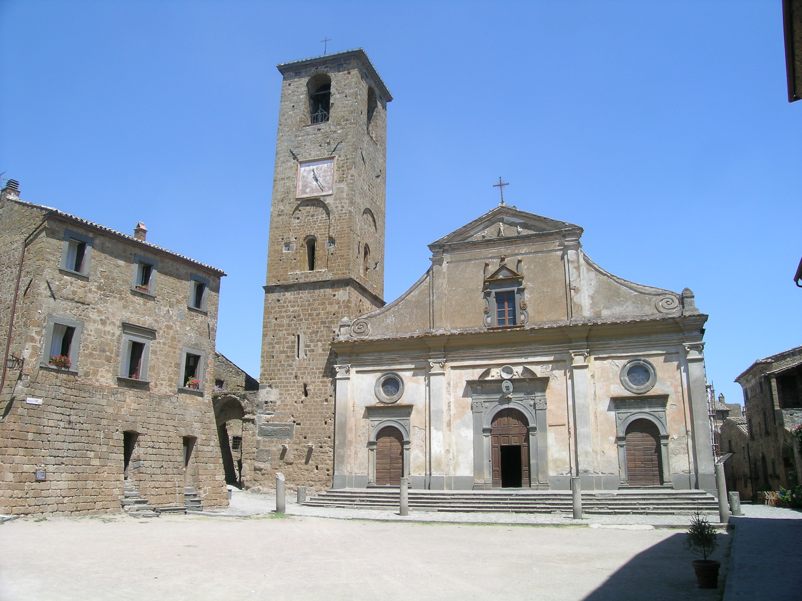 church on the main square of Bagnoregio, a small town in Lazio, Italy